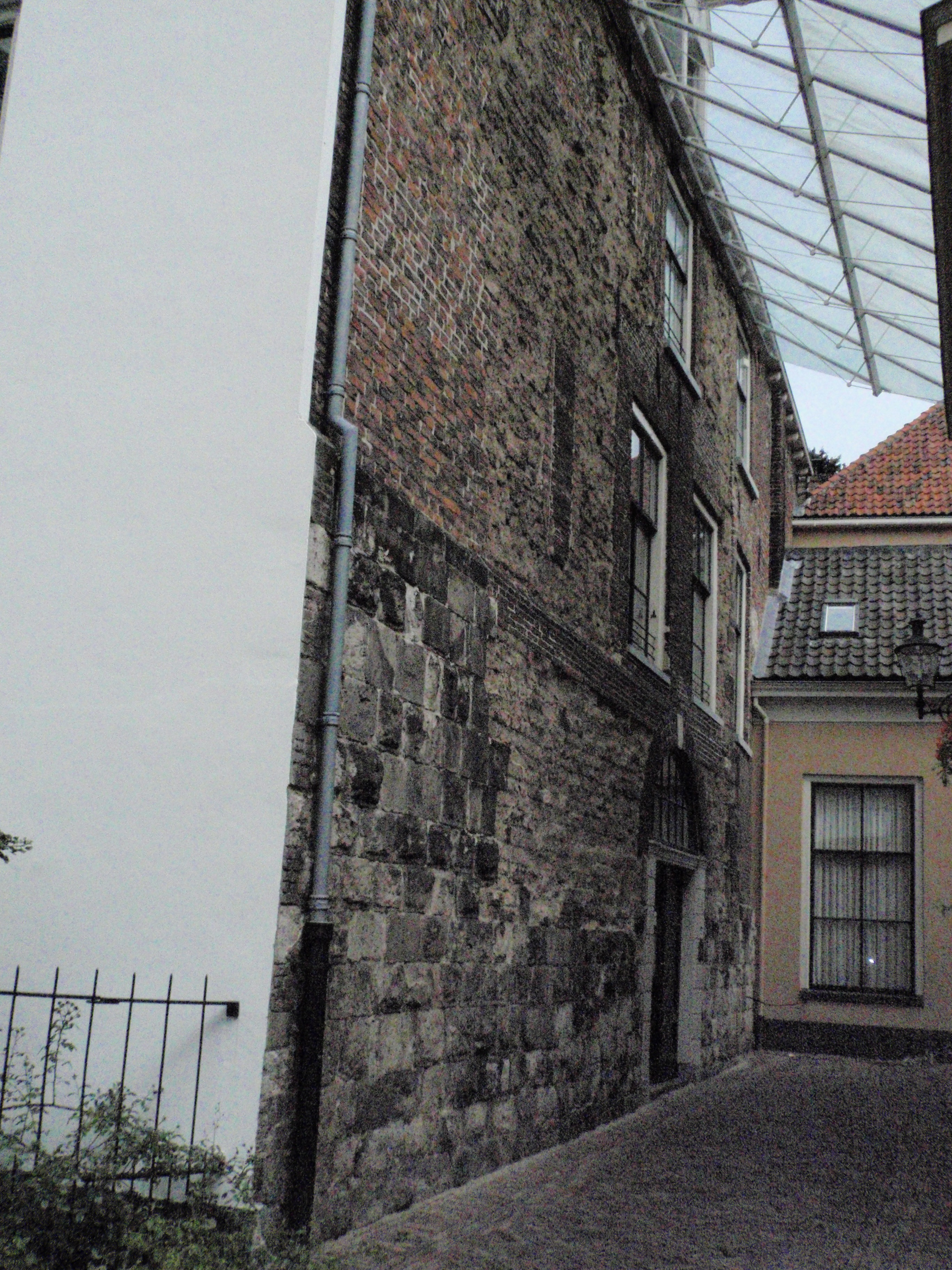 Proosdijhof: Oldest stone house of The Netherlands in Deventer